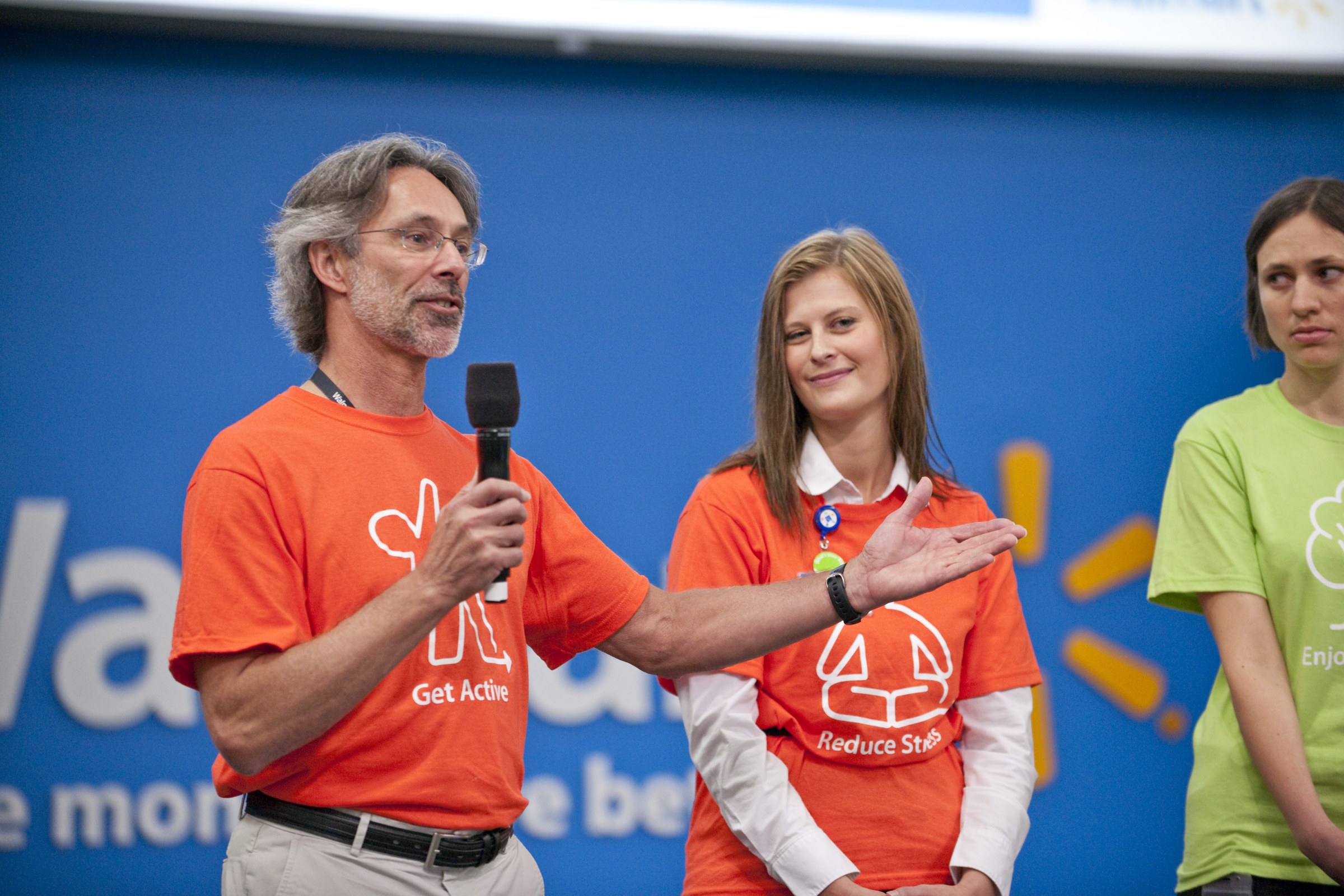 Walmart Sustainability Milestone Meeting 3/17/11 Walmart Programmer Analyst Gordon Haller discusses his committment to physical activity as part of his "My Sustainability Plan" (MSP). Gordon won the first Ironman Triathlon competition in 1978.